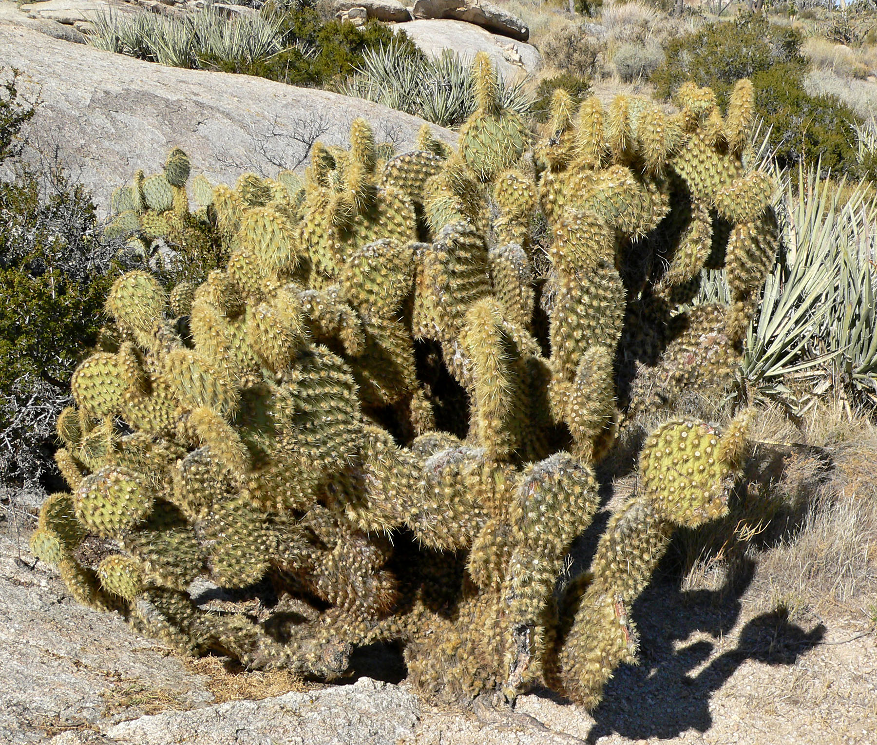 Opuntia chlorotica on Teutonia Peak trail, Cima Dome, Mojave National Preserve, southeastern California